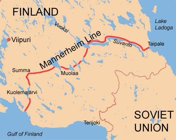 Map of the Mannerheim Line, the Finnish main defense line across the Karelian Isthmus in Winter War.